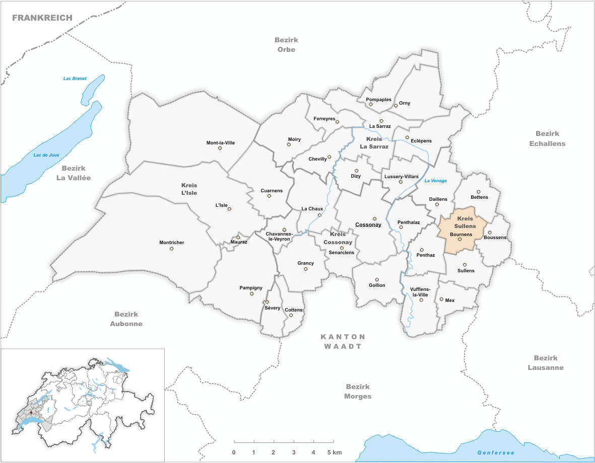 Municipality Bournens